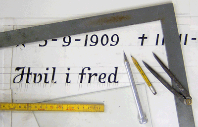 A photo from (before sandblasting) Taken by Halvard from Norway.